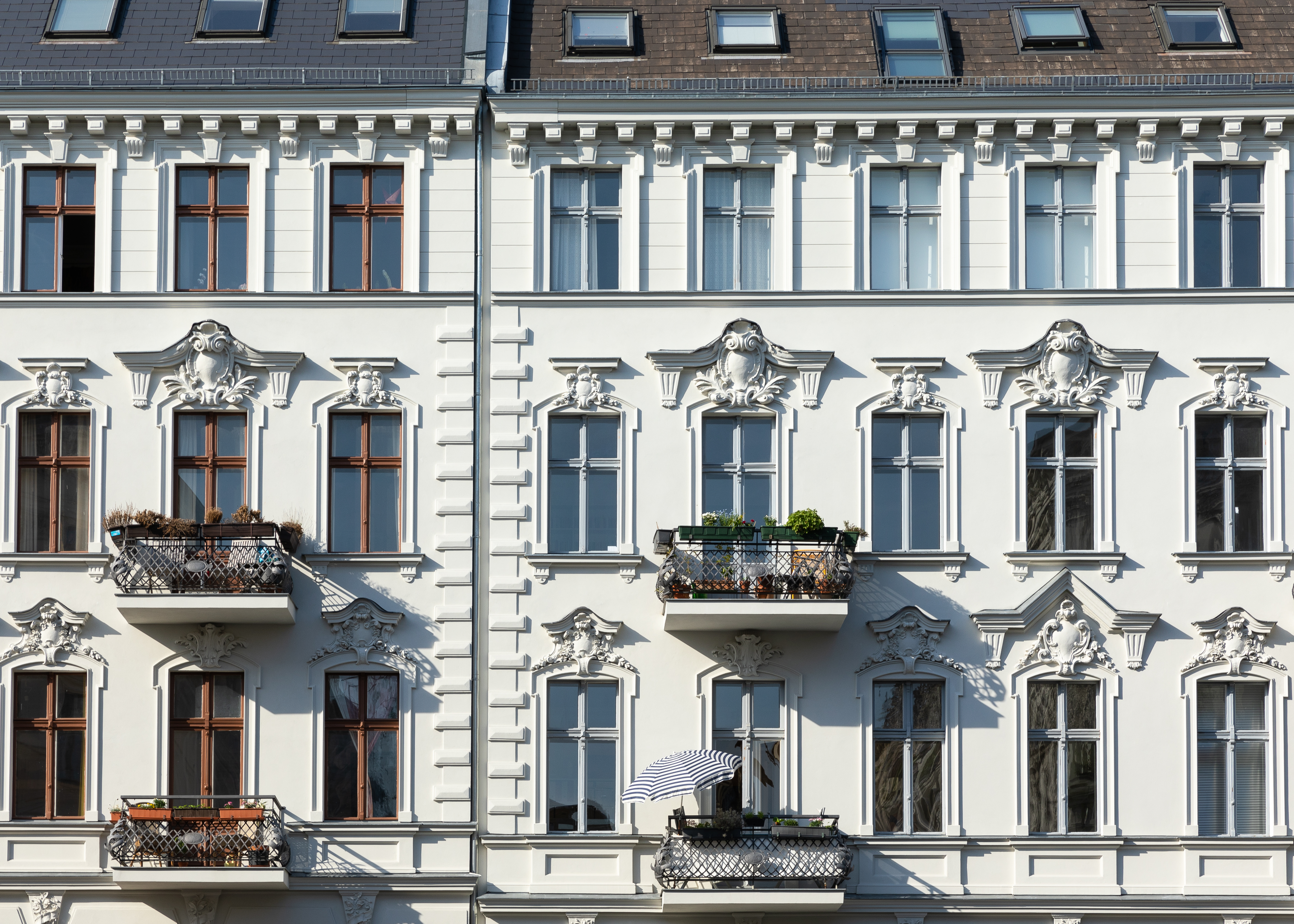 Facades in the Bergmannkiez quarter, Berlin-Kreuzberg, Germany